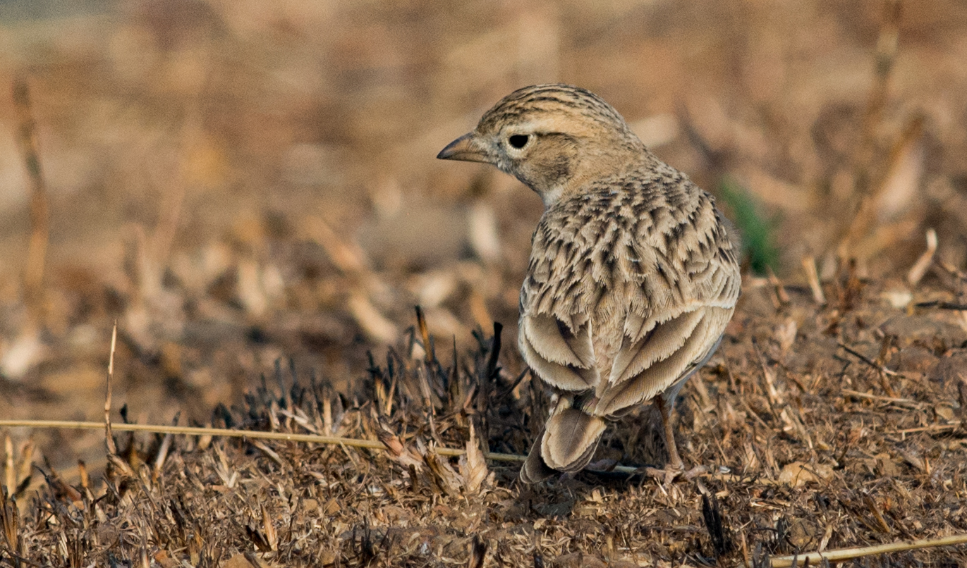 Greater Short-toed Lark Calandrella brachydactyla by Vedant Kasambe